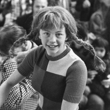 Inger Nilsson at the age of 12 as Pippi Longstocking at the RAI in Amsterdam 1972